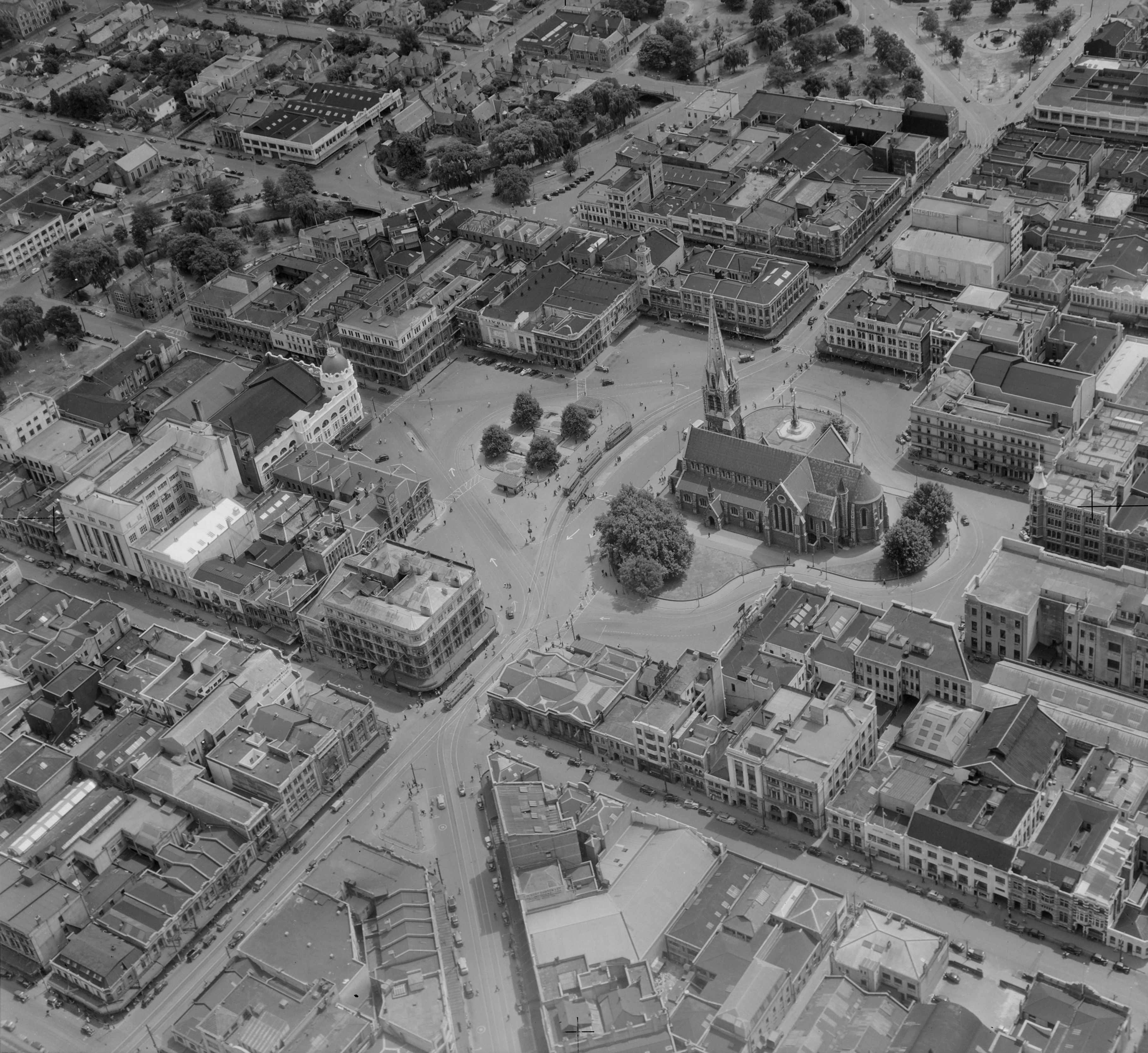 Aerial view of Cathedral Square, Christchurch [name on original negative enclosure: 'A.R. Harris'], photographed by K E Niven and Co of Wellington. The year is not given, but trams can be seen, and they were operated until 1954.